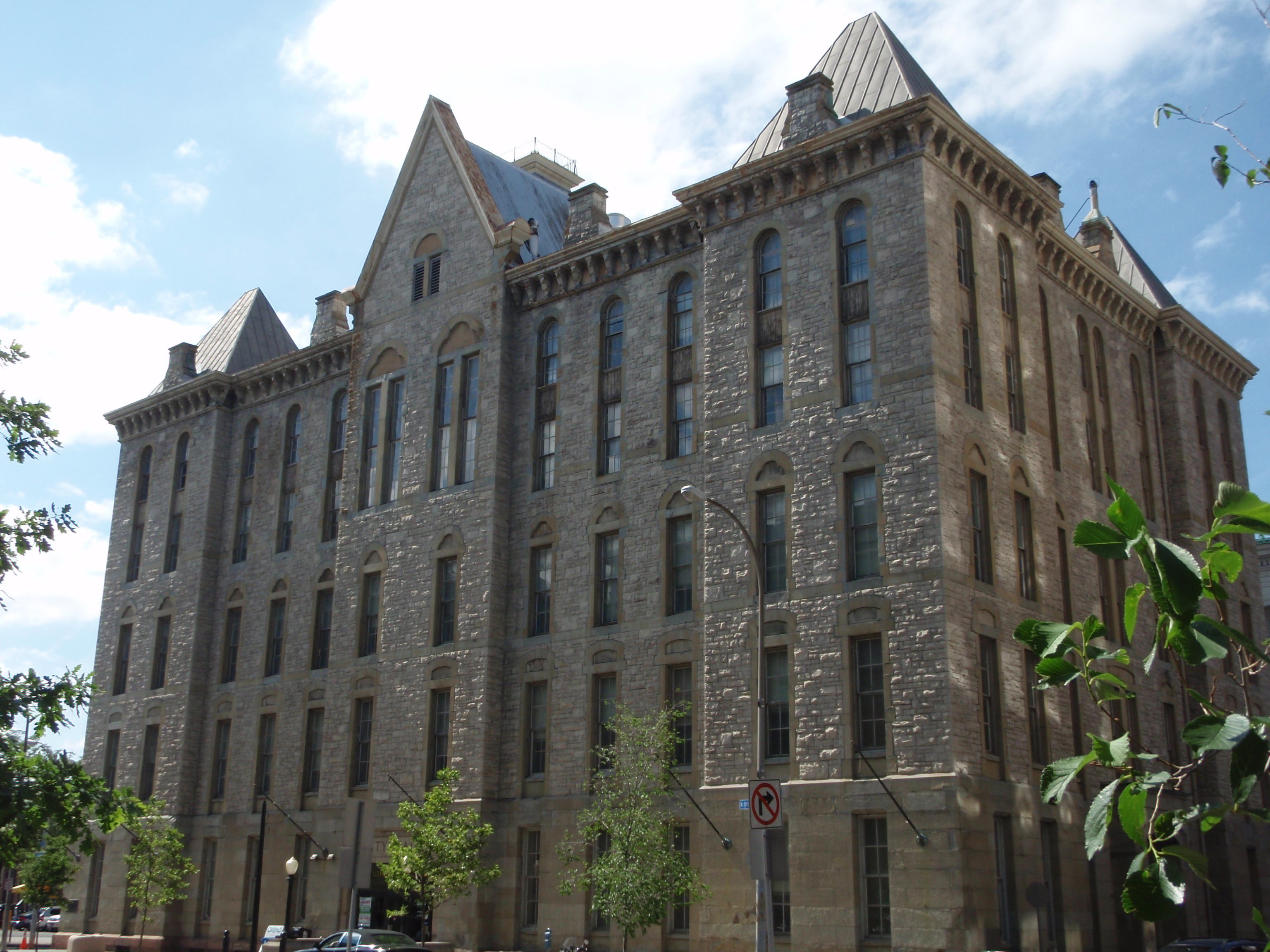 City Hall Historic District